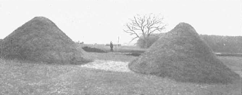 "Mounds" - Hole 4 at Nassau Country Club